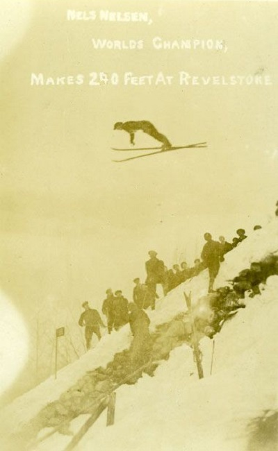 Nels Nelson sets the world record at 73 meters at the Big Hill ski jump in Revelstoke, British Columbia, Canada